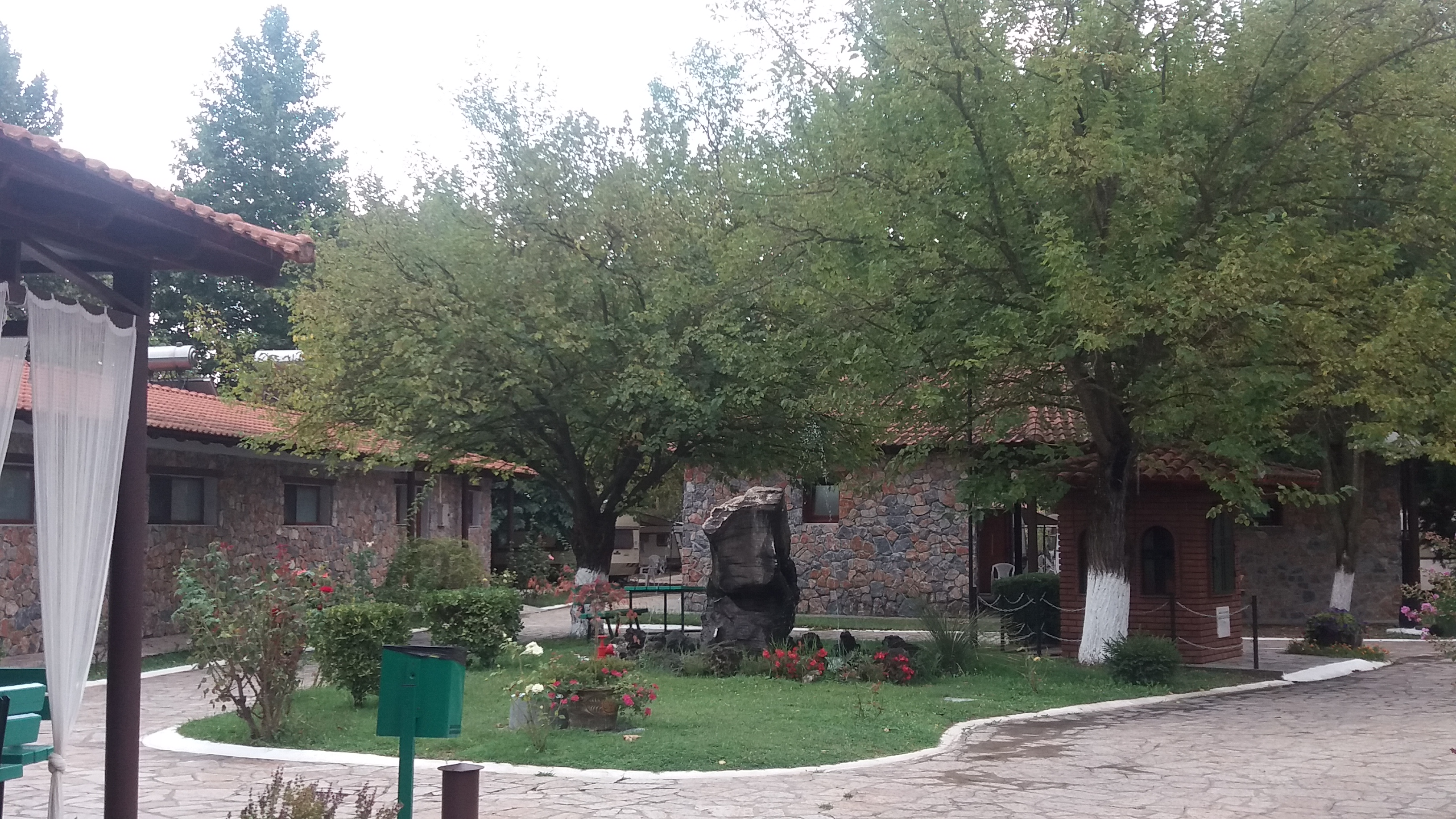 The premises of the mud baths of Krinides close to the archaeological site of Philippoi